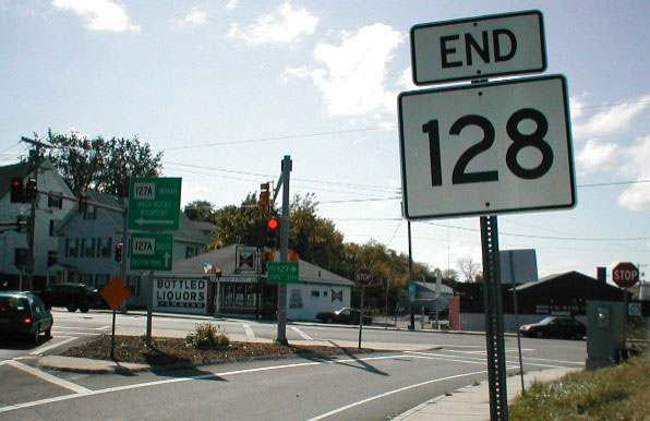 Route 128 north at Route 127A in Gloucester, Massachusetts